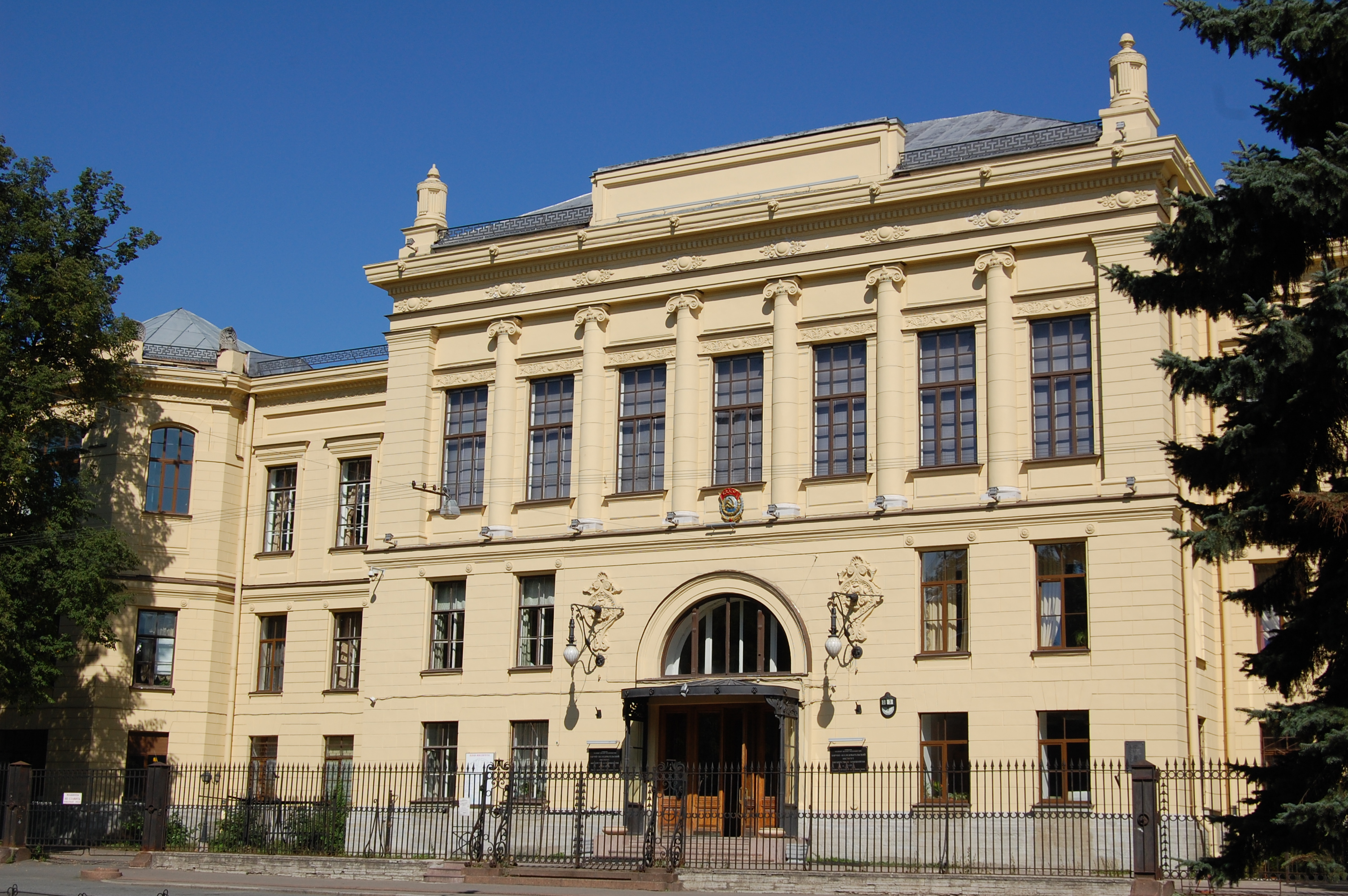 Obstetrics Institute in St Petersburg by the architect Leon Benois, 1901-1904